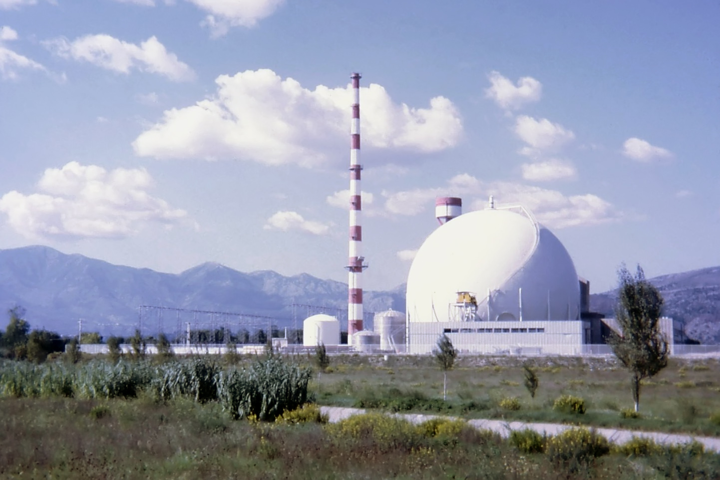 Panoramic view